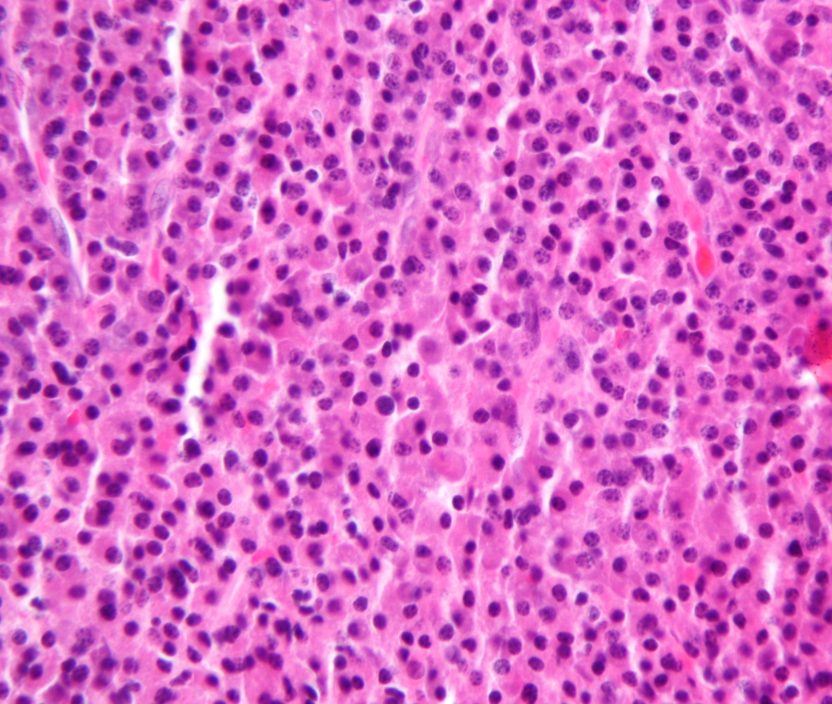 Micrograph of a plasmacytoma. H&E stain. The micrograph shows abundant (malignant) plasma cells with the occasional Mott cell, a plasma cell with an intracytoplasmic Russell bodies (an eosinophilic uniformly staining membrane bound body which contains immunoglobulin). Other features of plasmacytomas (not apparent on the image) are: a prominent perinuclear hof (large Golgi bodies), and Dutcher bodies (intranuclear inclusions). The plasma cells have the characteristic "clockface nuclei". Multiple myeloma (which is diagnosed using several clinical criteria) is, histologically, a plasmacytoma. Related images Uncropped. Cropped.